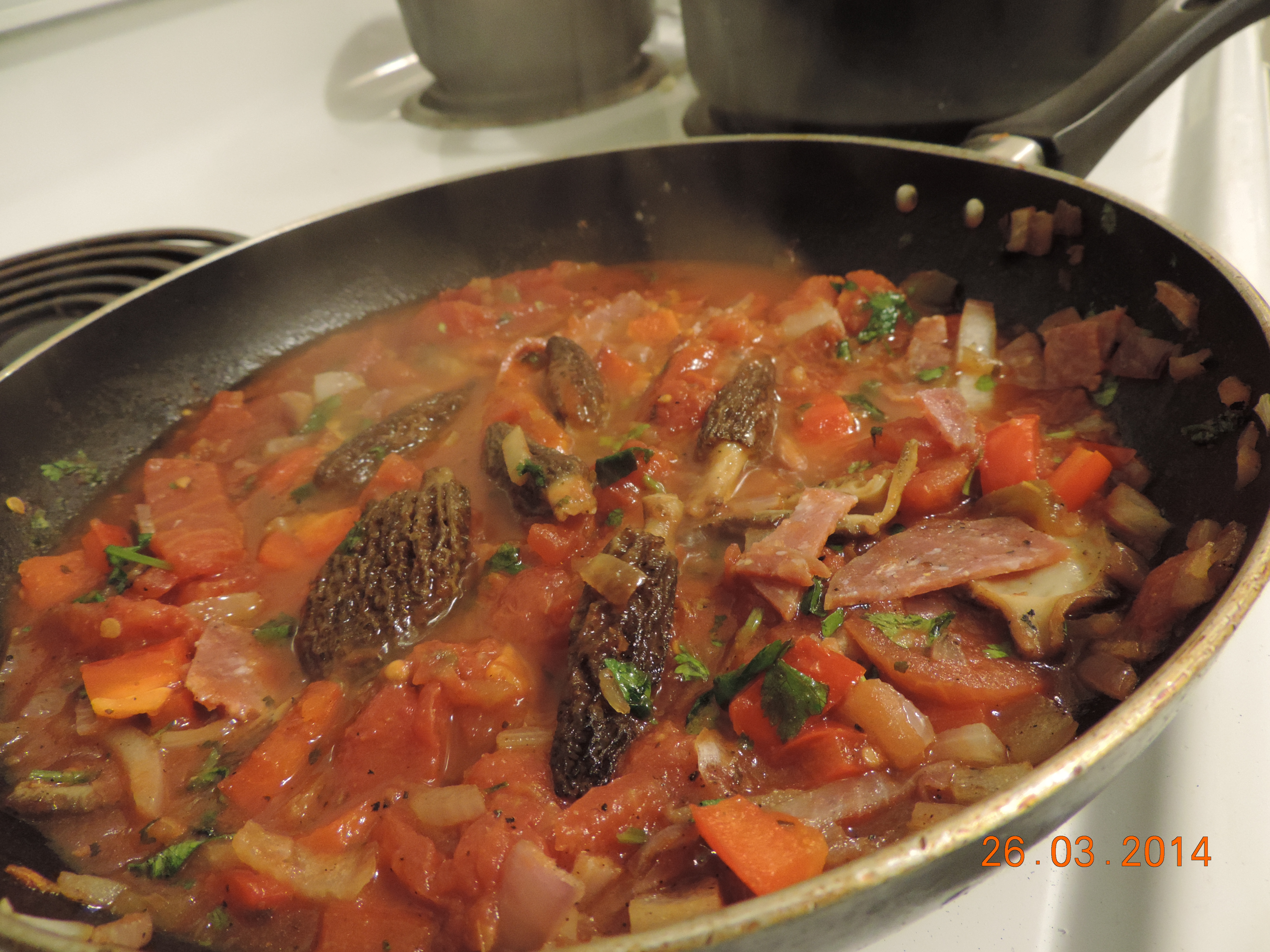 Morchella rufobrunnea Guzmán & F. Tapia Image location: Olympia, Washington, USA Recognized by sight For more information about this, see the observation page at Mushroom Observer.